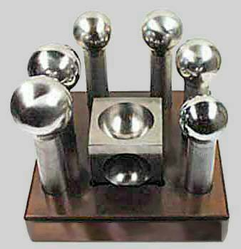 set of punches, used e.g. by a goldsmith